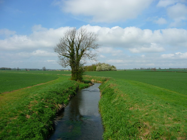 Willow Brook A small brook north of Fotheringhay.